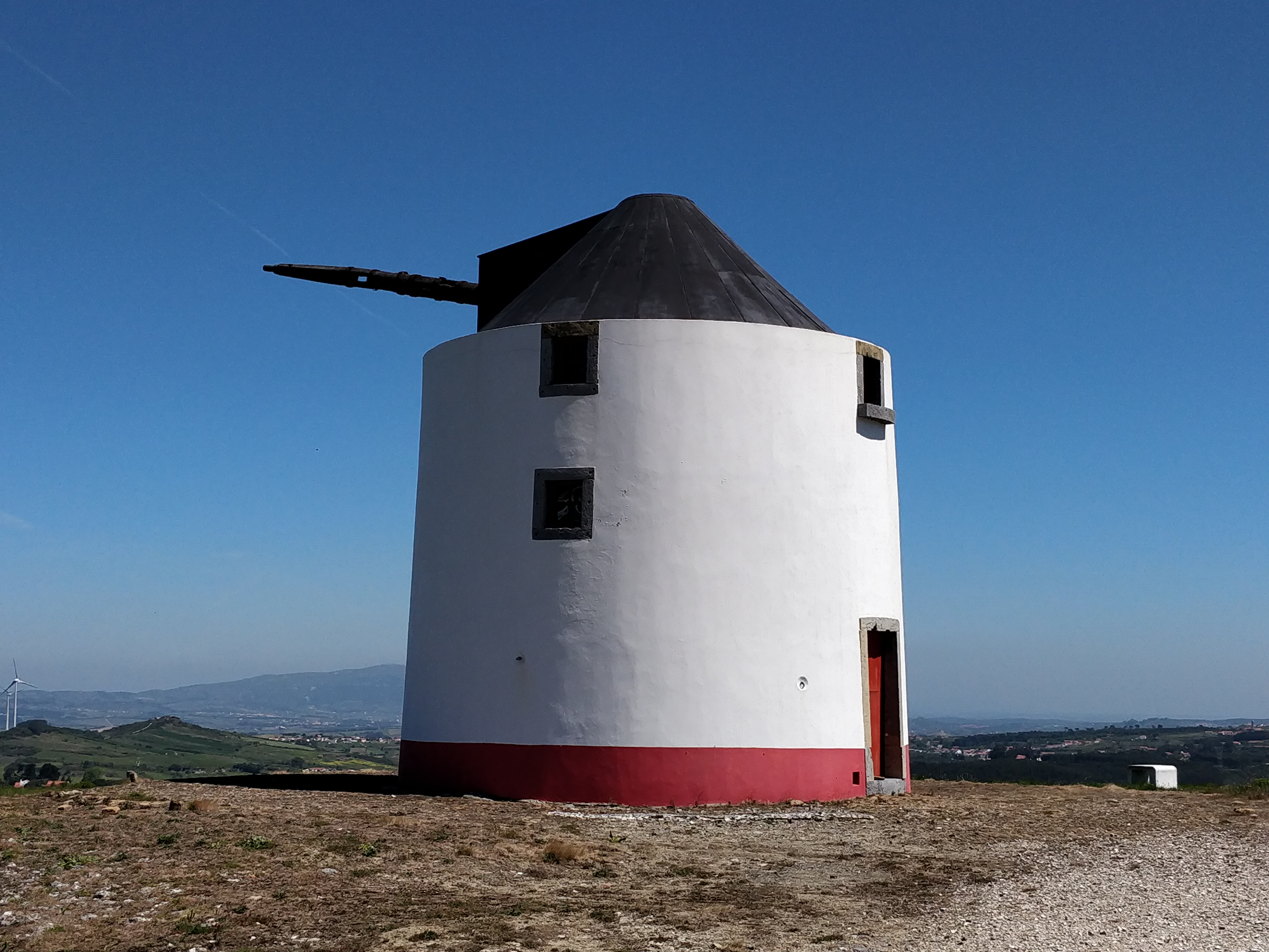 A view of Forte Novo (New Fort) on Monte Agraço, Portugal. In building the Lines of Torres Vedras it was common to incorporate existing hilltop mills into the design of the forts